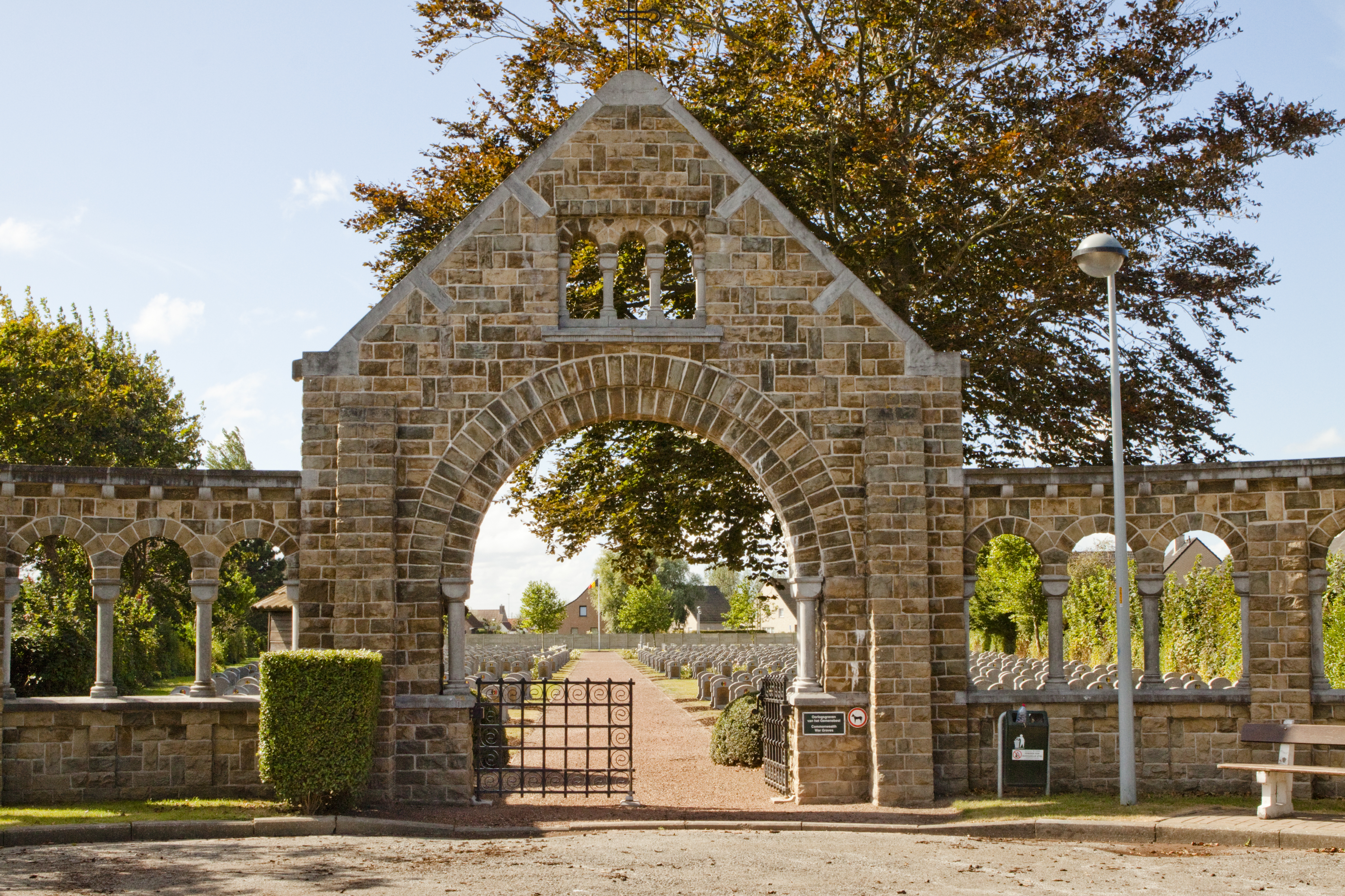 Adinkerke Churchyard Extension. Entrance